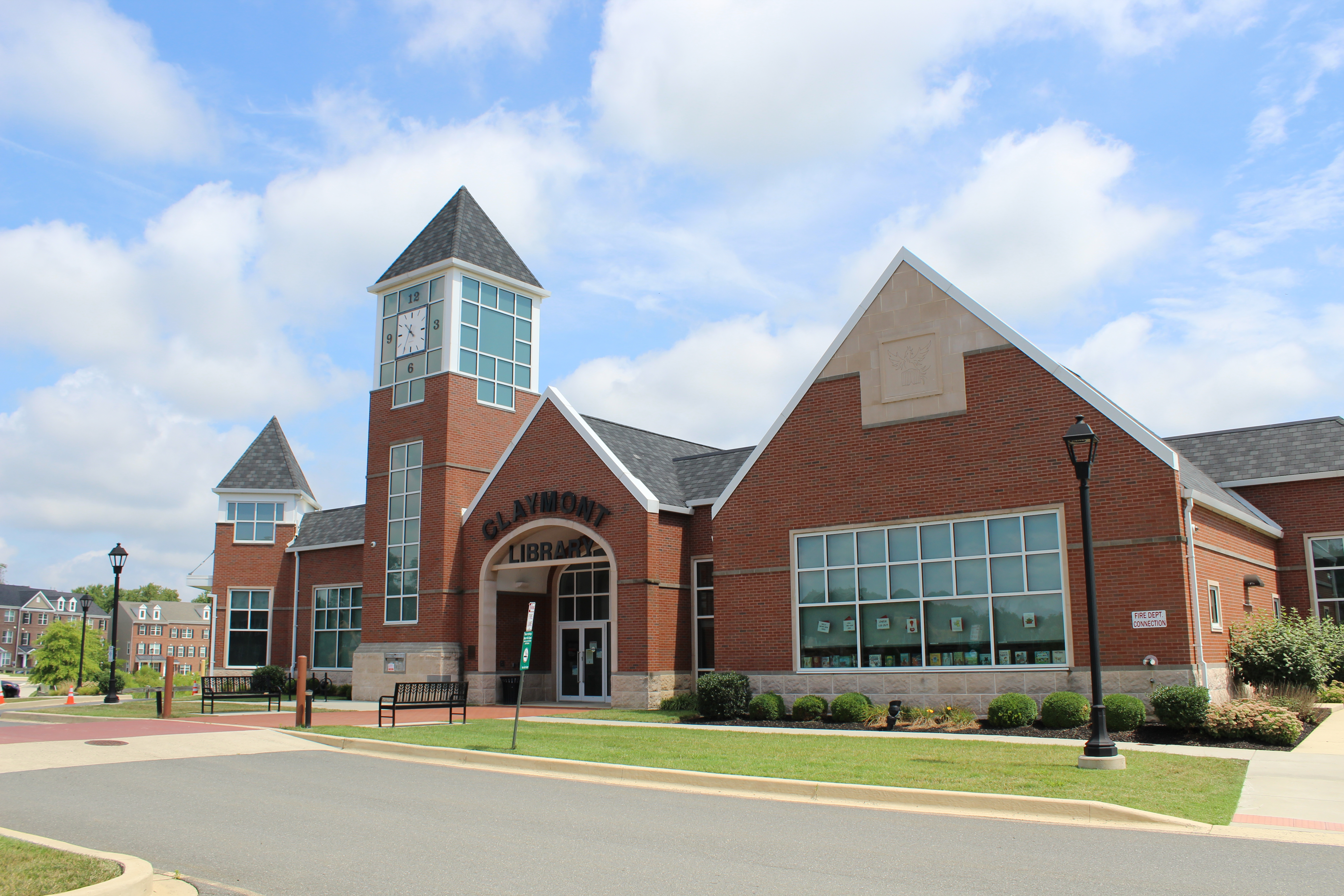 This is the Claymont Library in Claymont, Delaware. It was constructed in 2013 and is located within the Darley Green neighborhood of Claymont.